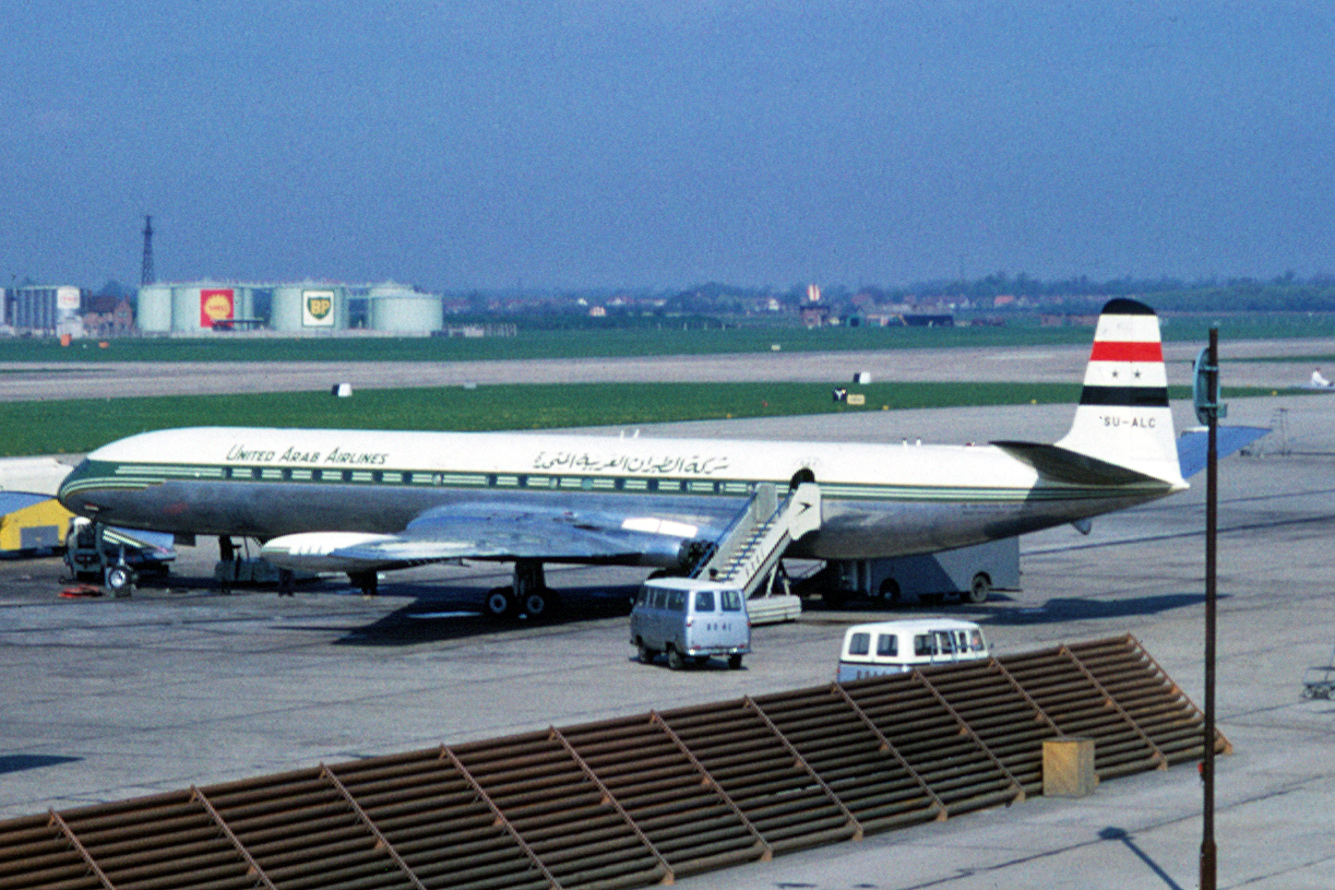 SU-ALC was delivered new to Misrair in Jun-60, Misrair was renamed United Arab Airlines in Dec-60. Sadly, the aircraft was written off when it crashed 6miles/10km from Tripoli Airport, Libya in Jan-71